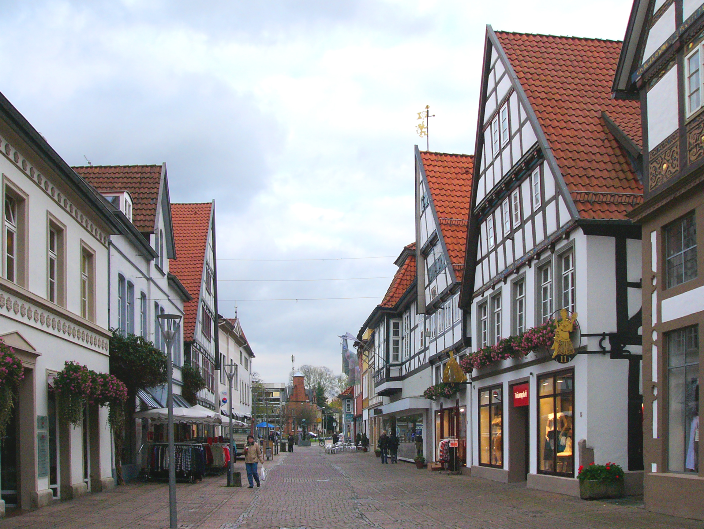 Mittelstrasse in Lemgo, Germany